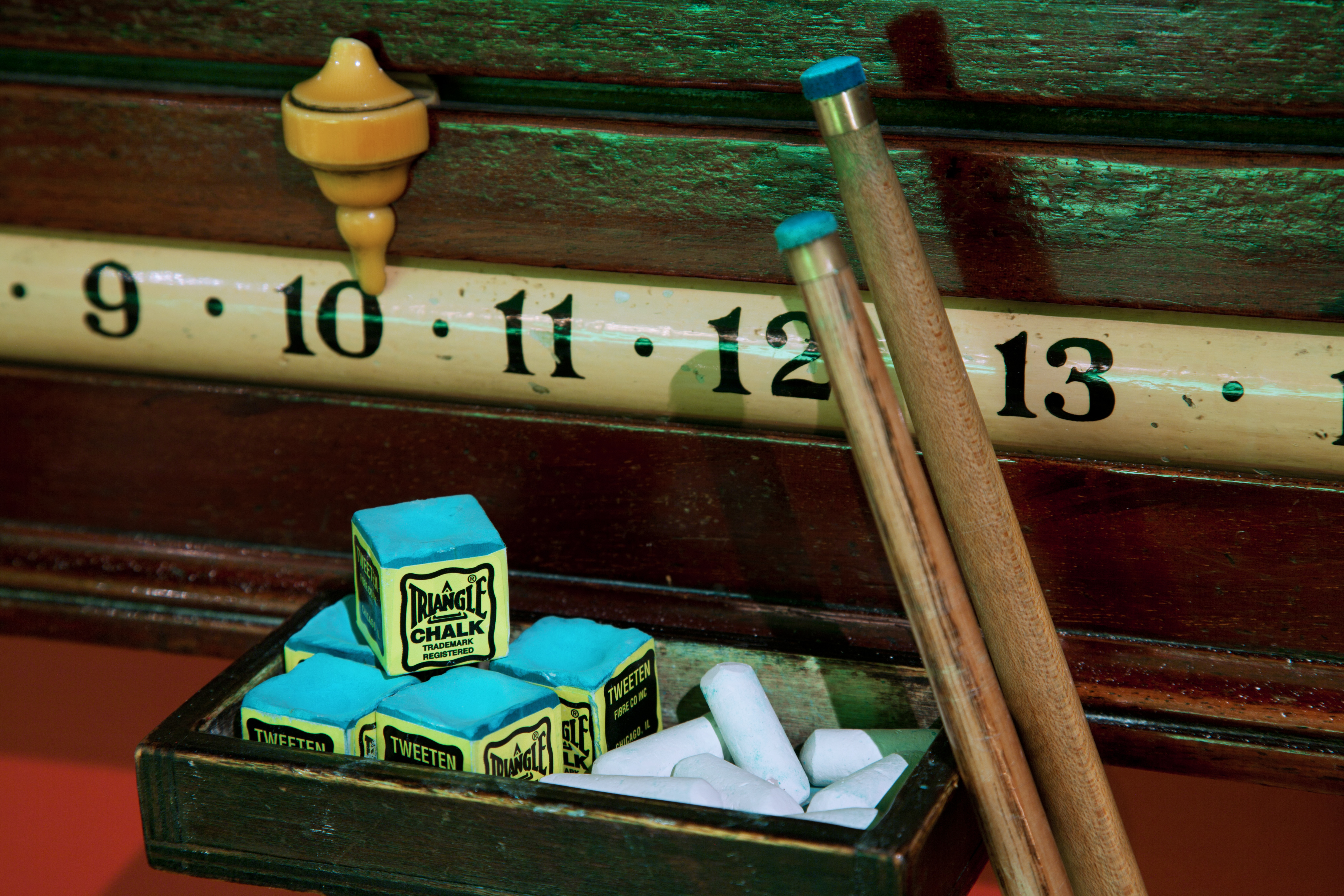 Billiard cue and chalk detail. Billiards Room. Royal Automobile Club. London, UK